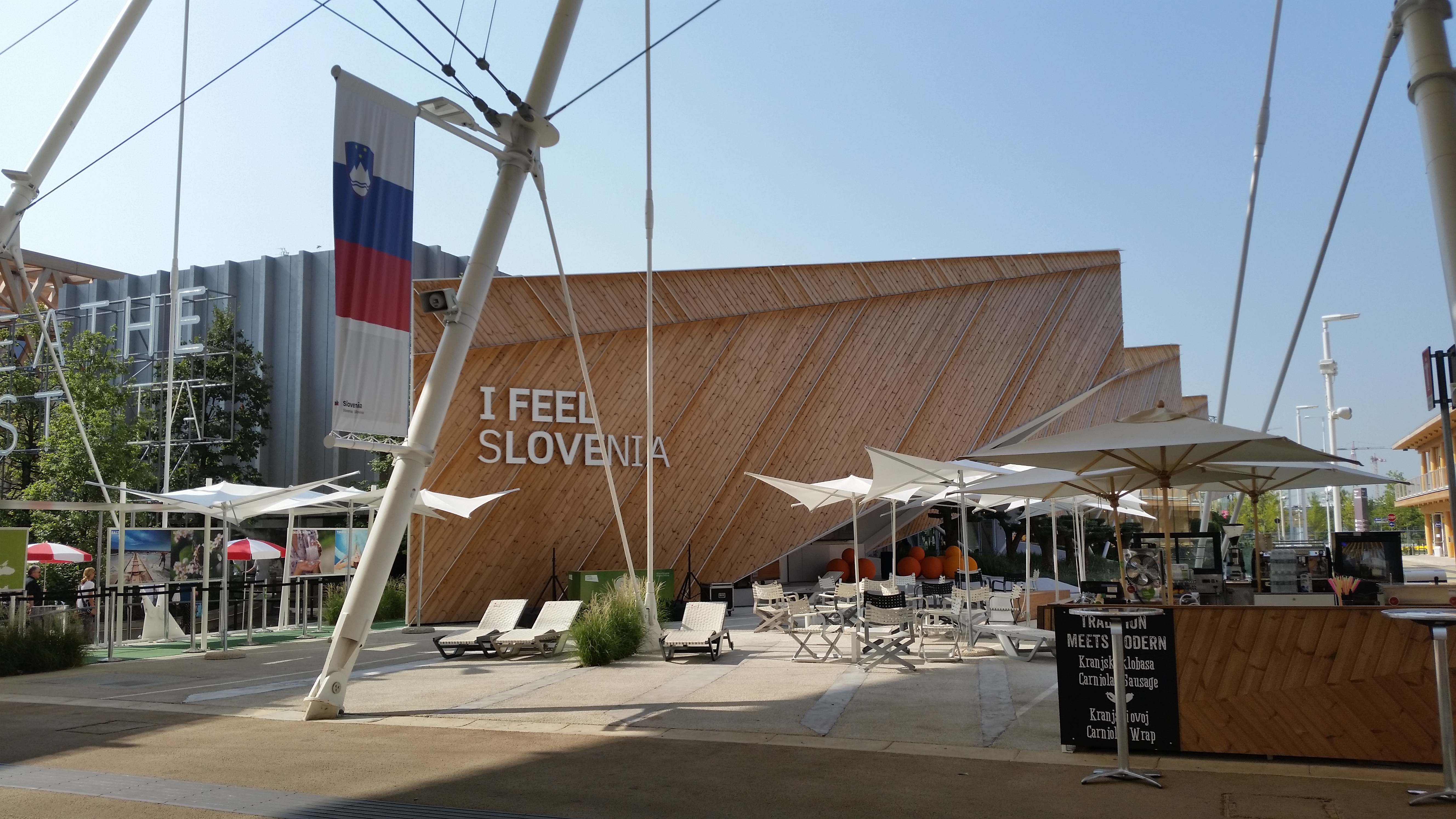 Pavilion of the Expo 2015 located in Milano (Italy)